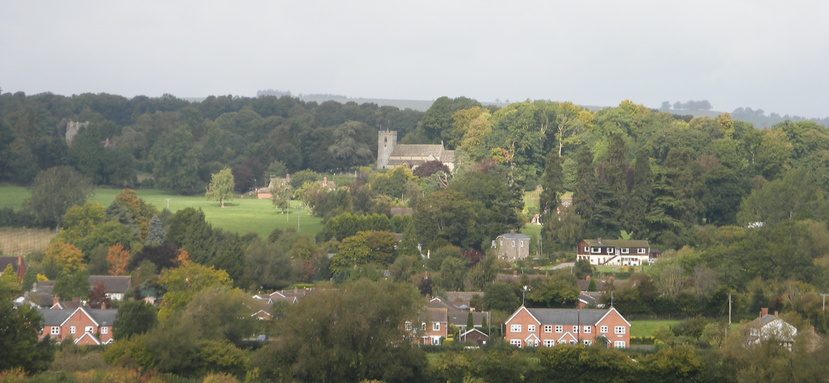 View of the village of Lyonshall taken from the hamlet of Holme Marsh which is just to the south of Lyonshall.